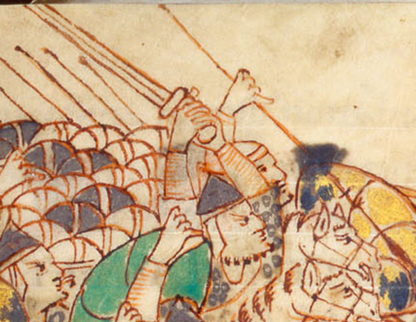 Illuminated manuscript, 1 Maccabees and Flavius Vegetius Renatus, 'Epitoma rei militaris' (Book IV) / Index and vocabulary on Vegetius's Epitoma rei militaris and Sextus Julius Frontinus, 'Strategemata' (excerpts)